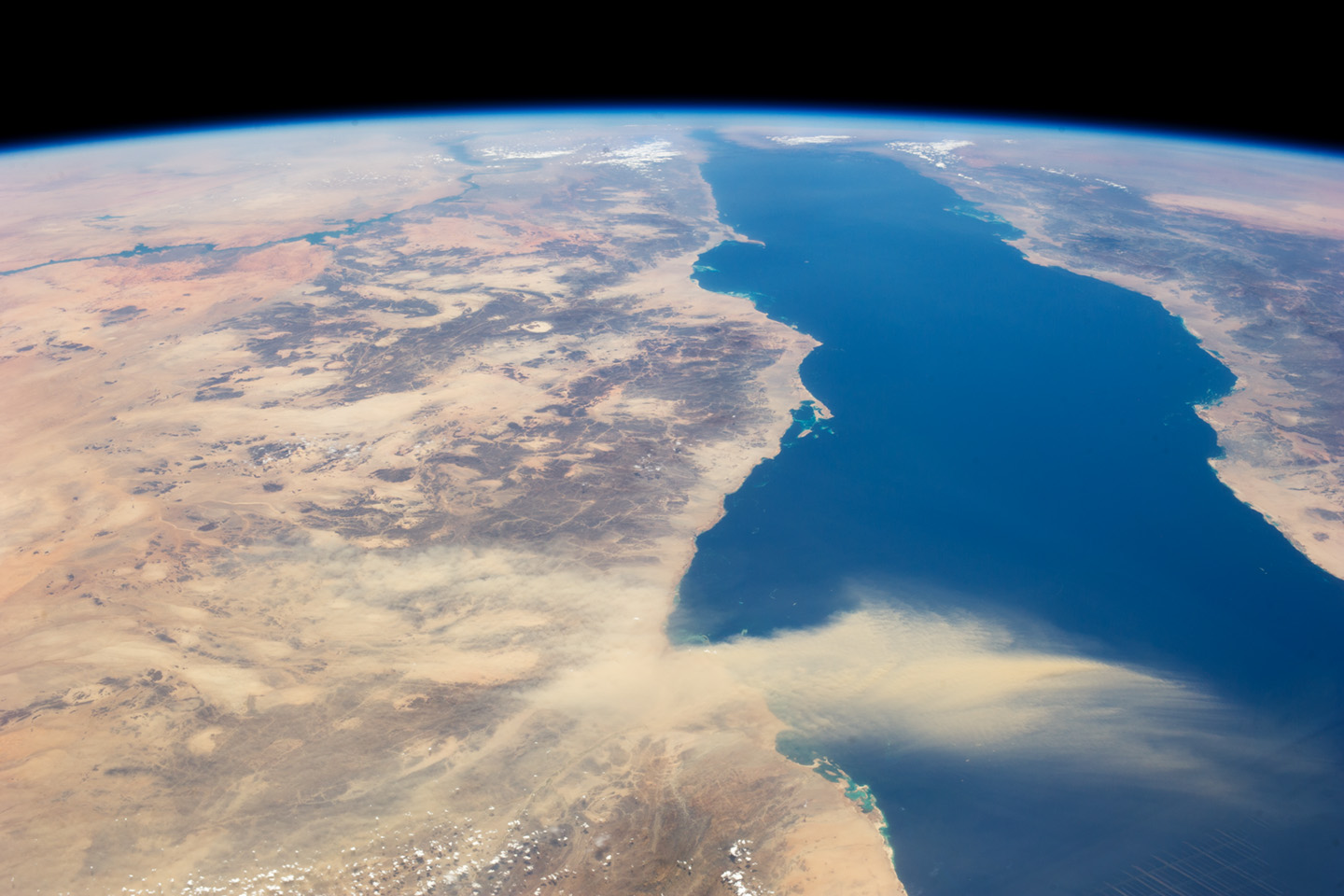 Desert dust over the Red Sea